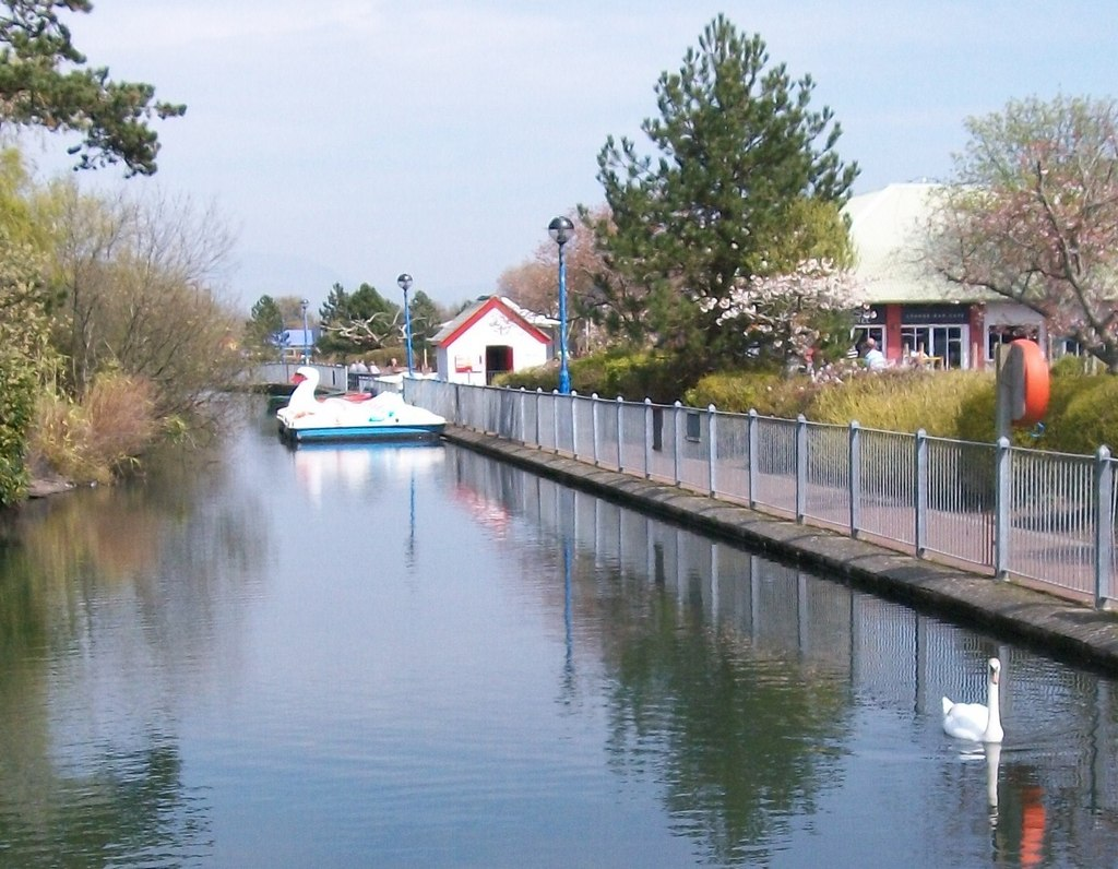 View eastwards across the boating lake at Hafan y M�r Holiday Park, near to Chwilog, Gwynedd, Great Britain.